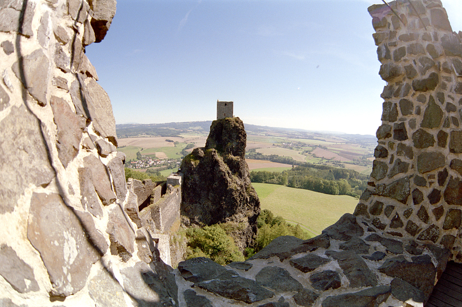 castle Trosky, view from the lower to the higher tower/ Burg Trosky, Blick vom kleineren zum höheren Teil der Burg picture taken by me (Olaf1541) in summer 2004 licensed by me as GFDL